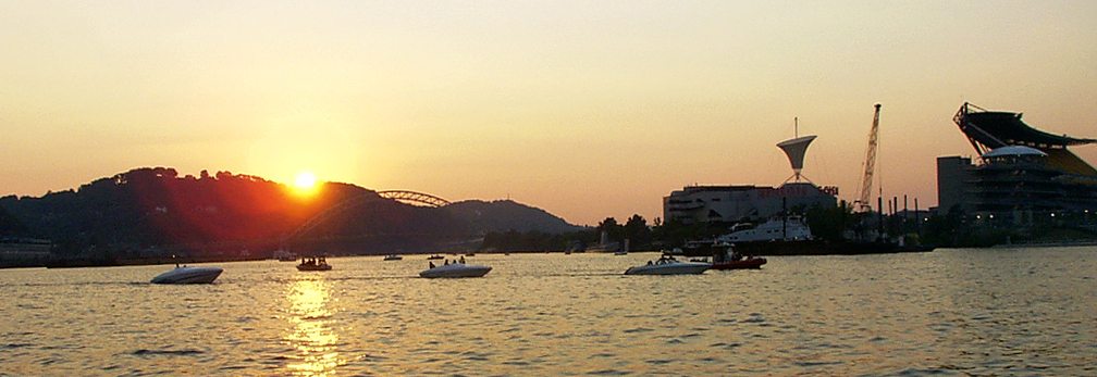 Taken at the point in Point State Park during the 2002 Three Rivers Regatta in Pittsburgh.